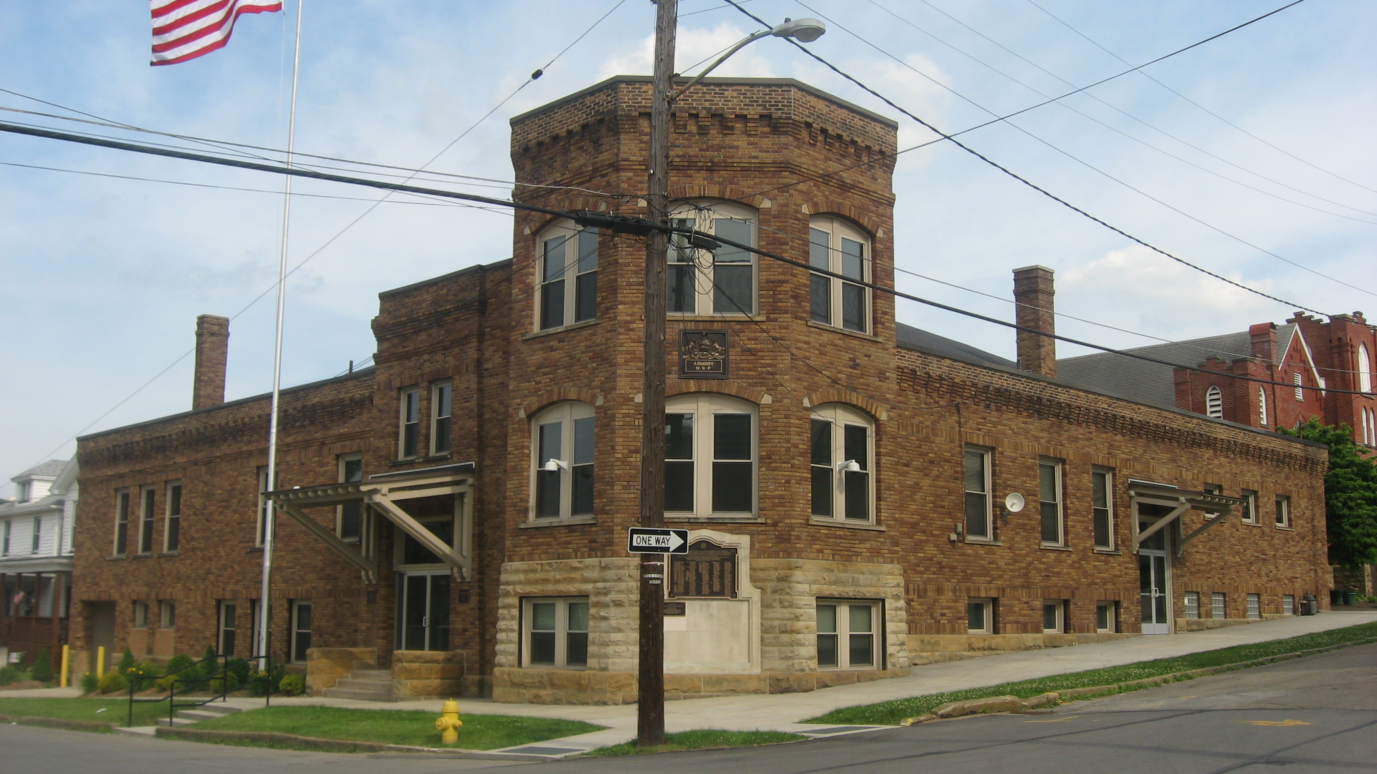 Northern and western sides of the Oil City Armory, located on the southeastern corner of the junction of Second and State Streets in Oil City, Pennsylvania, United States. Built in 1914, it is listed on the National Register of Historic Places, and it is part of a Register-listed historic district, the Oil City South Side Historic District.